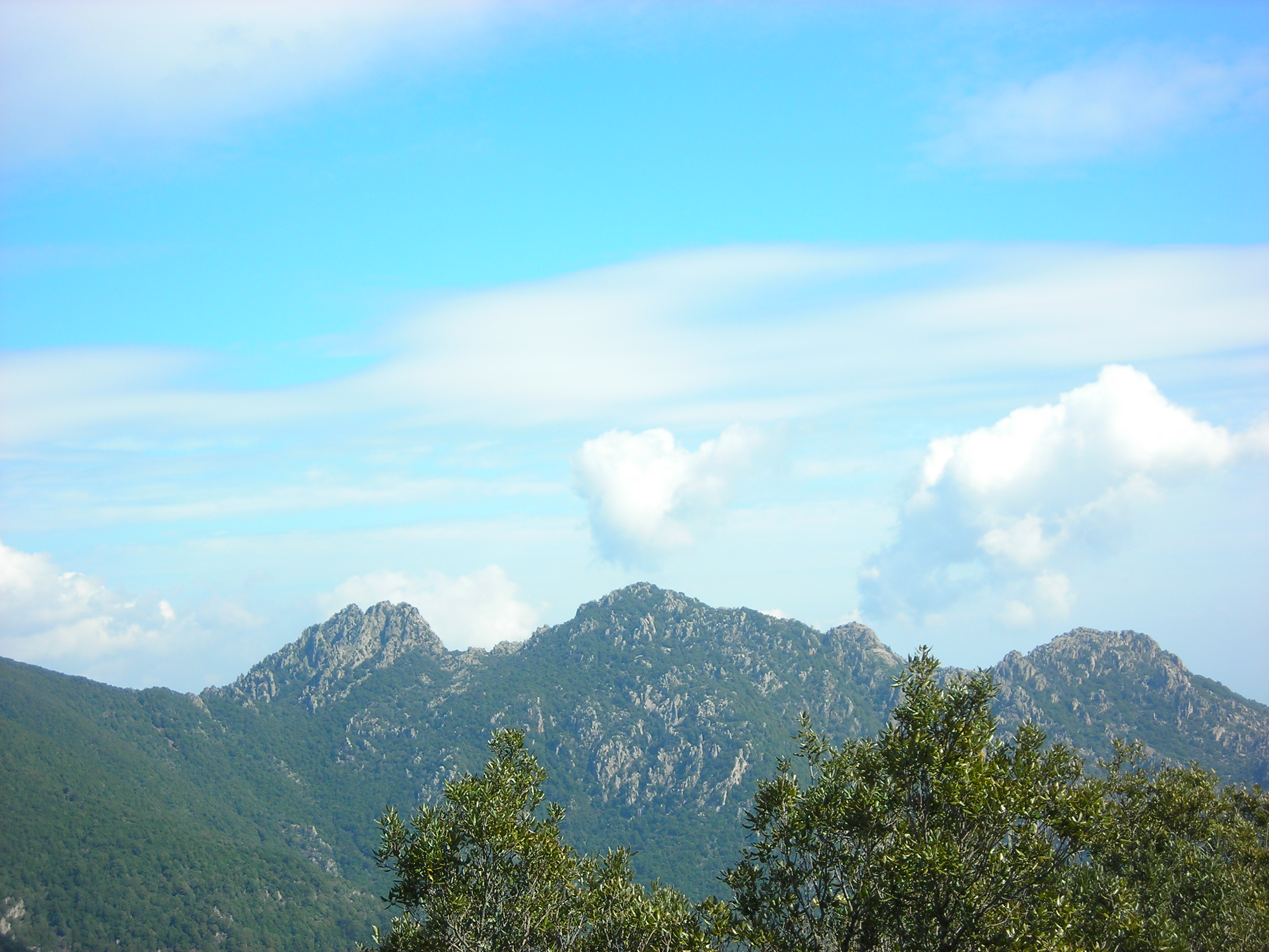 Mount Lattias (Sardinia, Italy). View from M. Sa Mirra